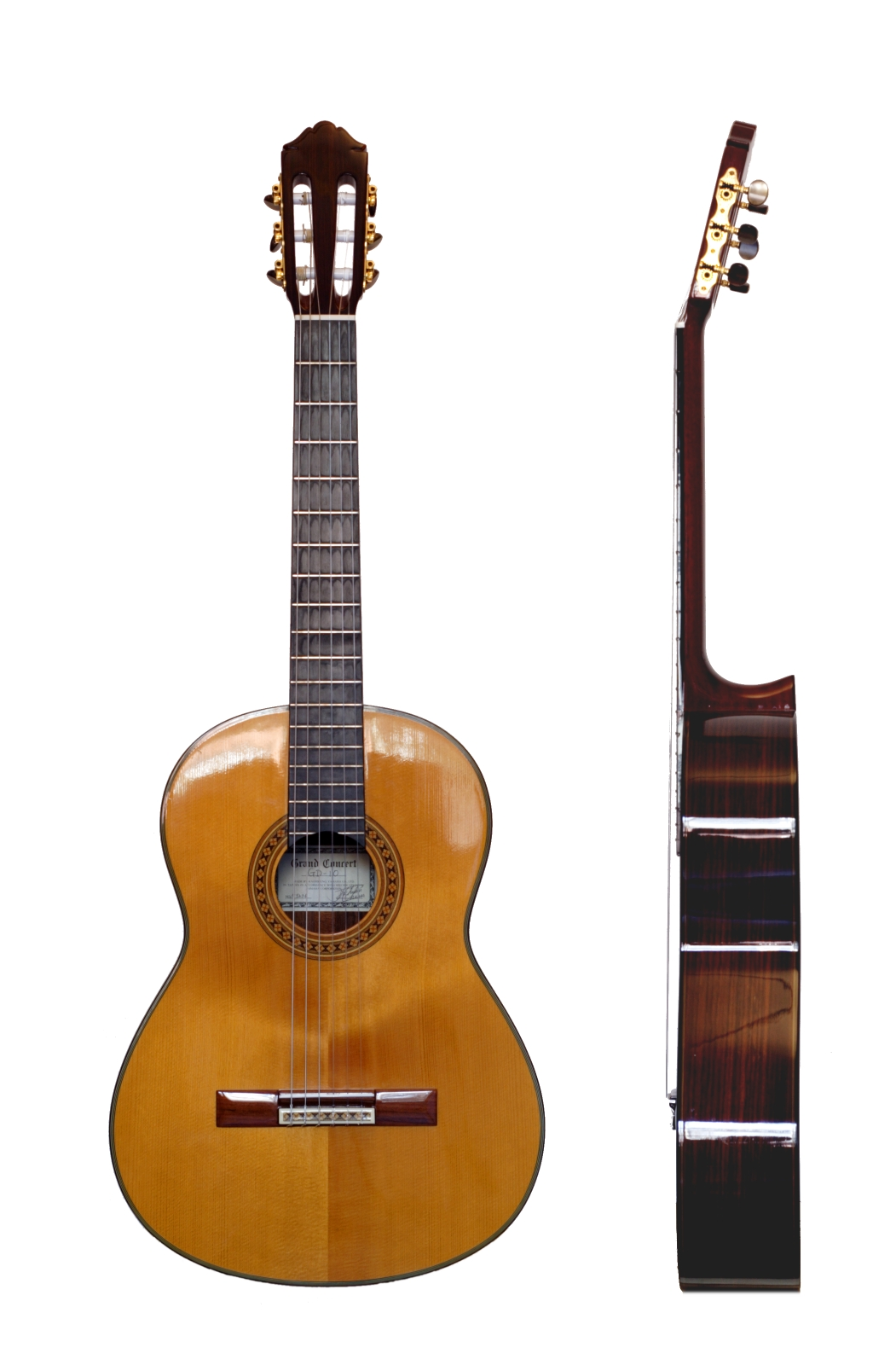 Classical Guitar, front and side view. This image shows two views of a classical guitar.